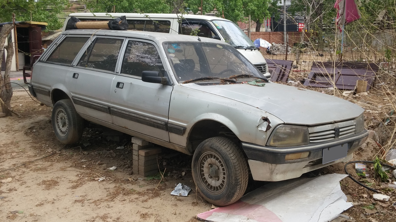 Guangzhou-Peugeot 505 SW8 photographed in Beijing, China.